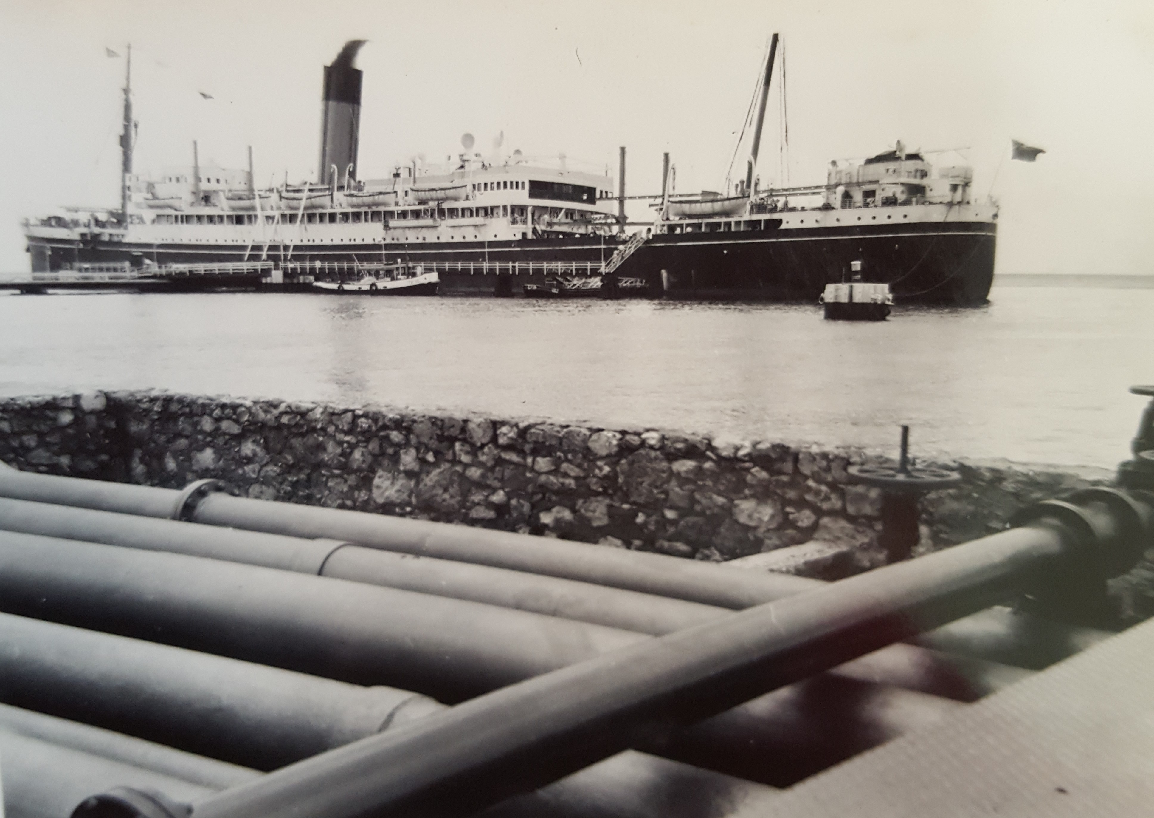 The SS Tamaroa departed Port Chalmers, New Zealand on the 18th August 1956 stopping at Wellington before heading through the Panama Canal to England.